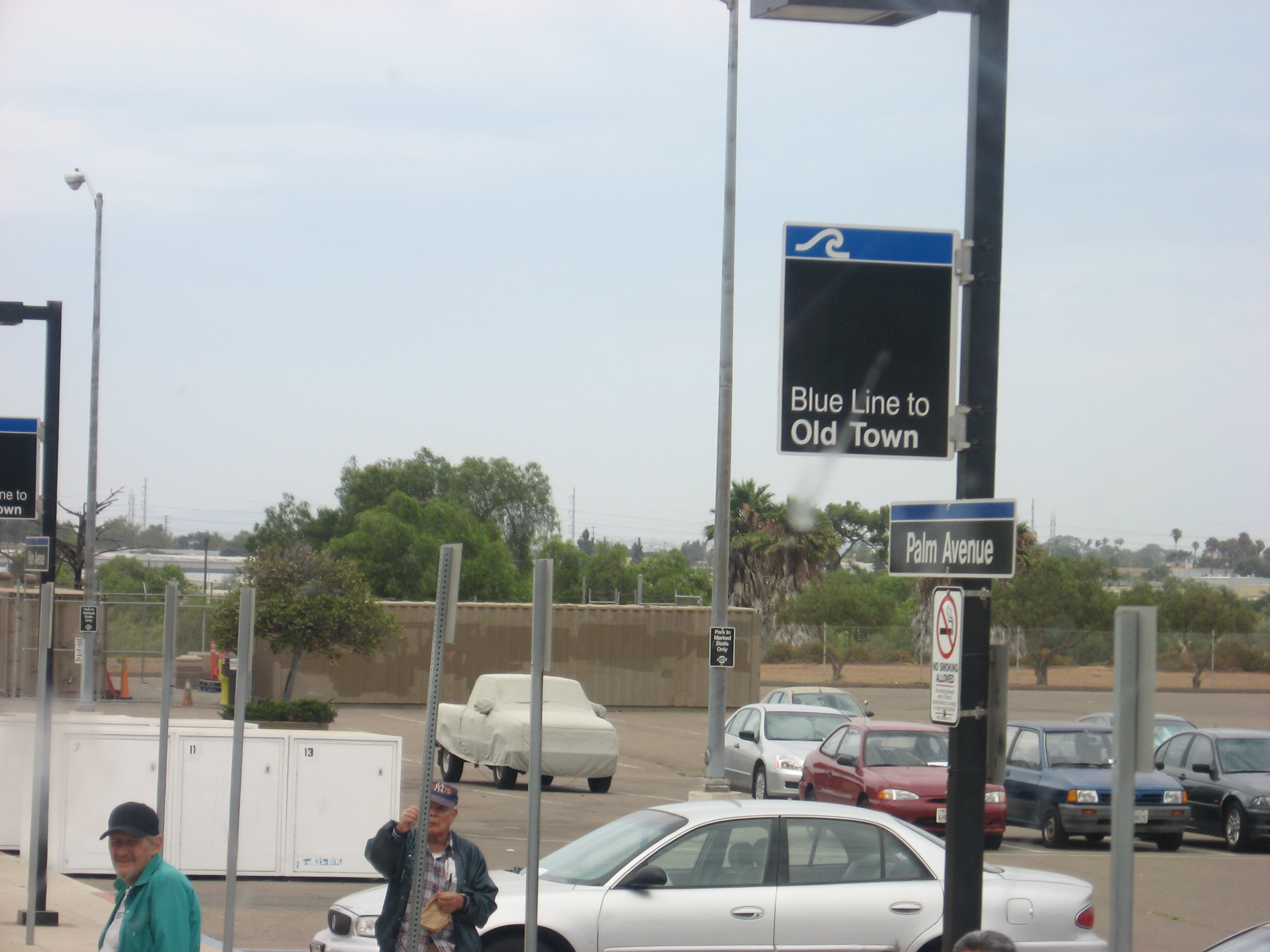 Palm Avenue Trolley Station in Imperial Beach, CA